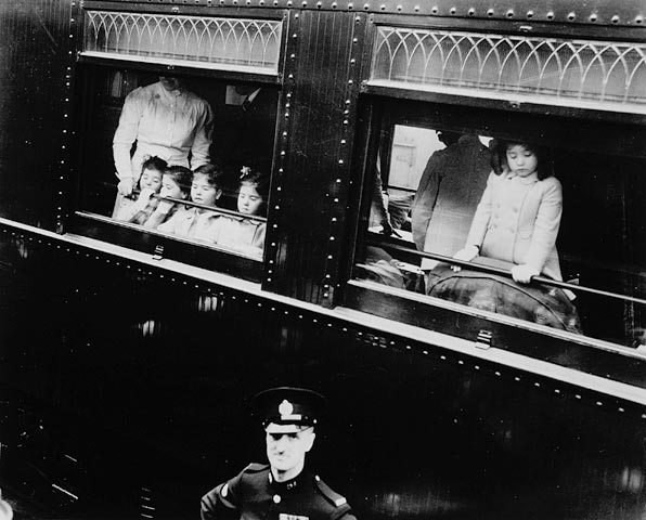 The Dionne Quintuplets arrive in Toronto for presentation to Her Majesty Queen Elizabeth. Toronto, Canada.